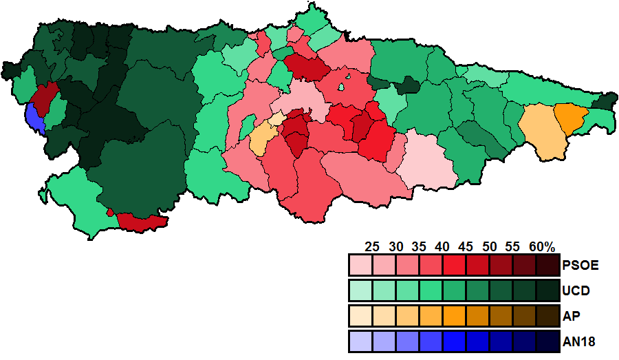 Most-voted party in Asturias municipalities, showing vote share obtained, in the Spanish general election, 1977.